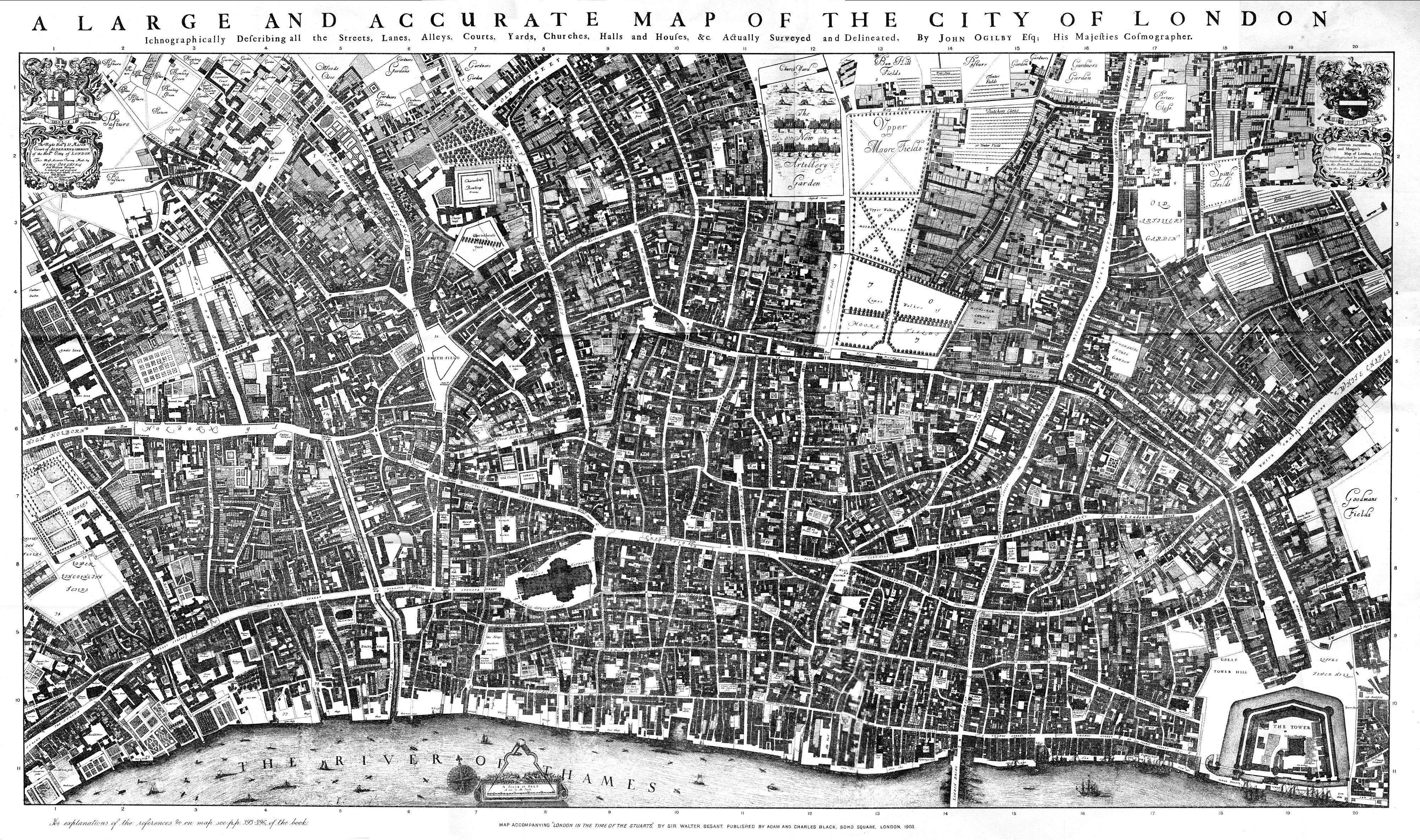 The original of this map is 8 feet 5 inches by 4 feet 7 inches, in 20 sheets. In 1894 the British Museum granted permission to the London and Middlesex Archaeological Society to make a reduced copy, of which the original of this scan is a copy. The L&M Society copy apparently did not match the dissected sheets perfectly, and the misjoins can be seen in places in this reproduction.